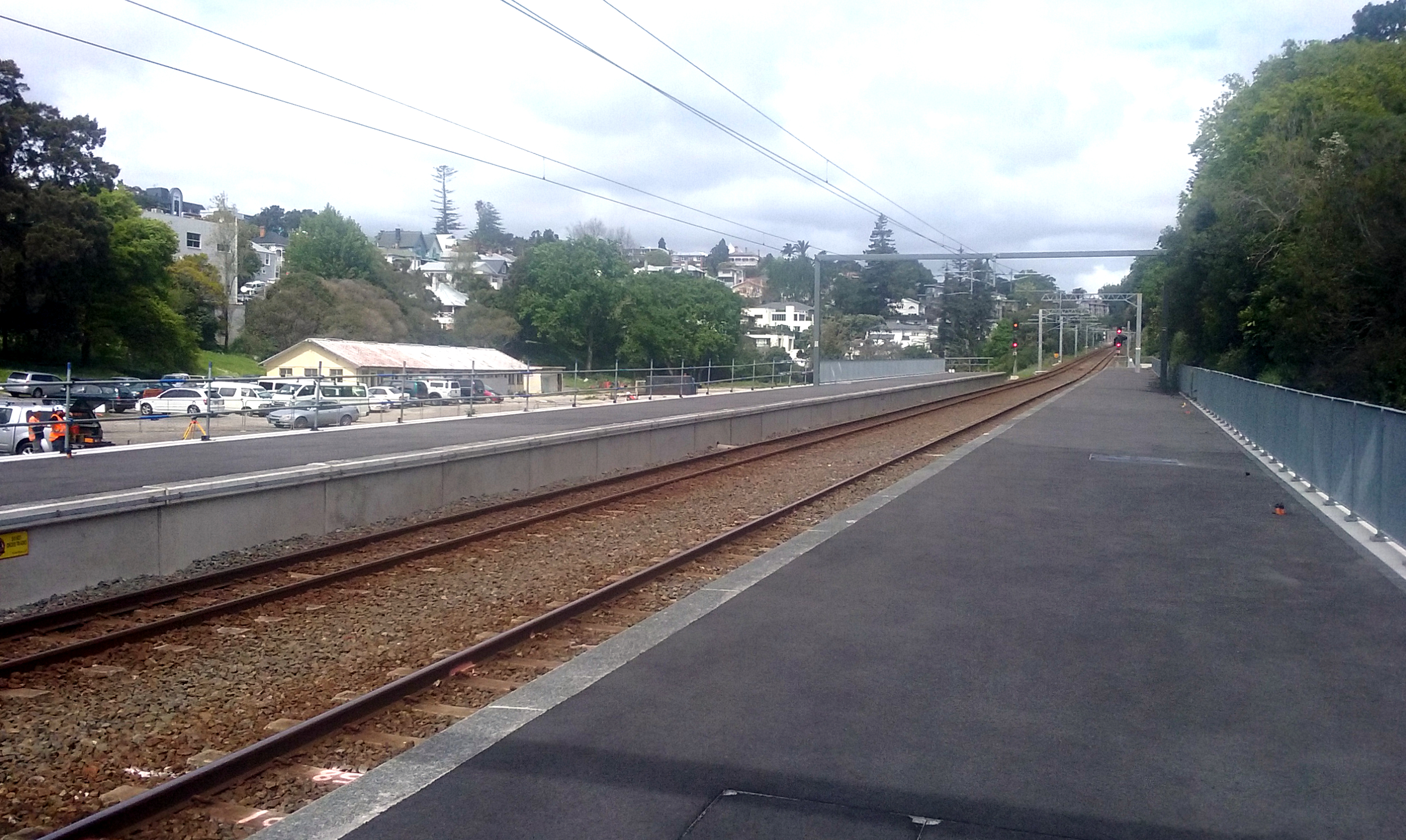 The Parnell Railway Station under construction. View from the platform towards the Parnell tunnel. The site of the former Mainline Steam depot is visible in the background.